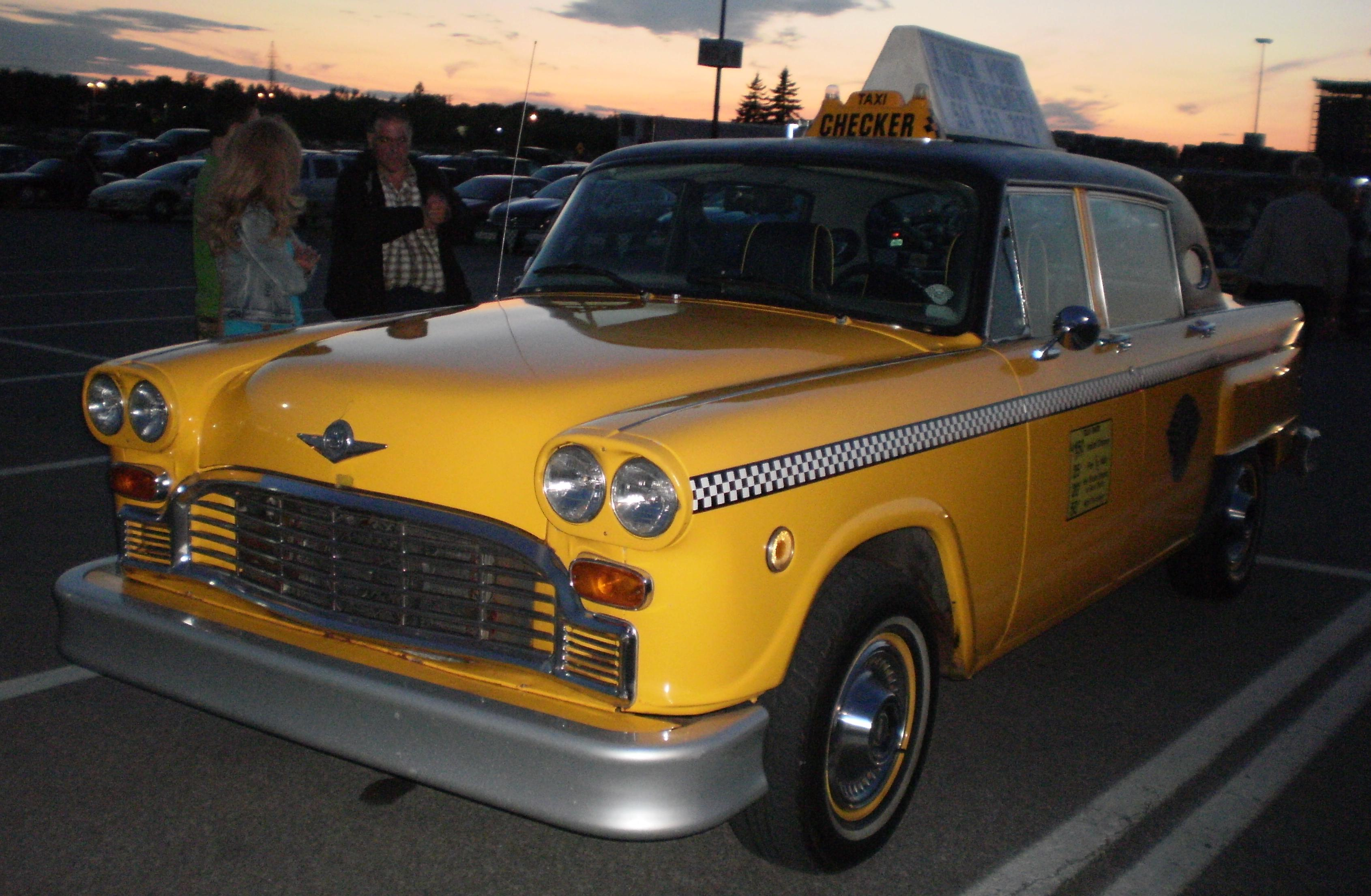 Checker Marathon photographed in Laval, Quebec, Canada at Les chauds vendredis.